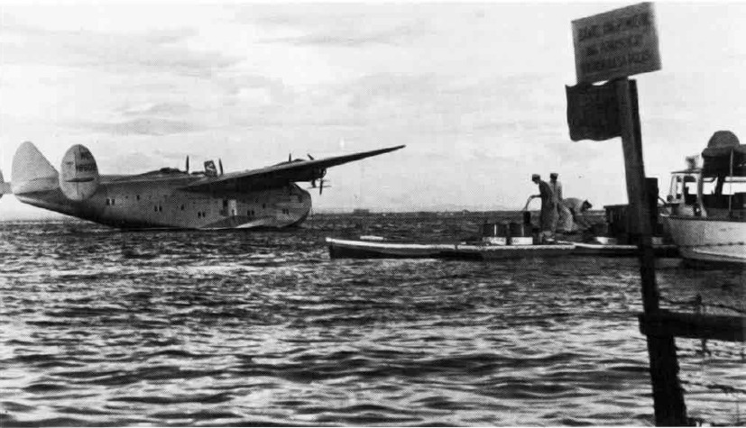 The Boeing 314 California Clipper (civil registration NC18602) off the Cavite Navy Yard, Philippines, 1939-1941. Delivered on 27 January 1939, it went to the USAAF as C-98 42-88632, 18 December 1941; then to the US Navy as BuNo 99084. It was sold to Universal Airways in 1946, and to American International in 1948. It was finally scrapped in 1950.